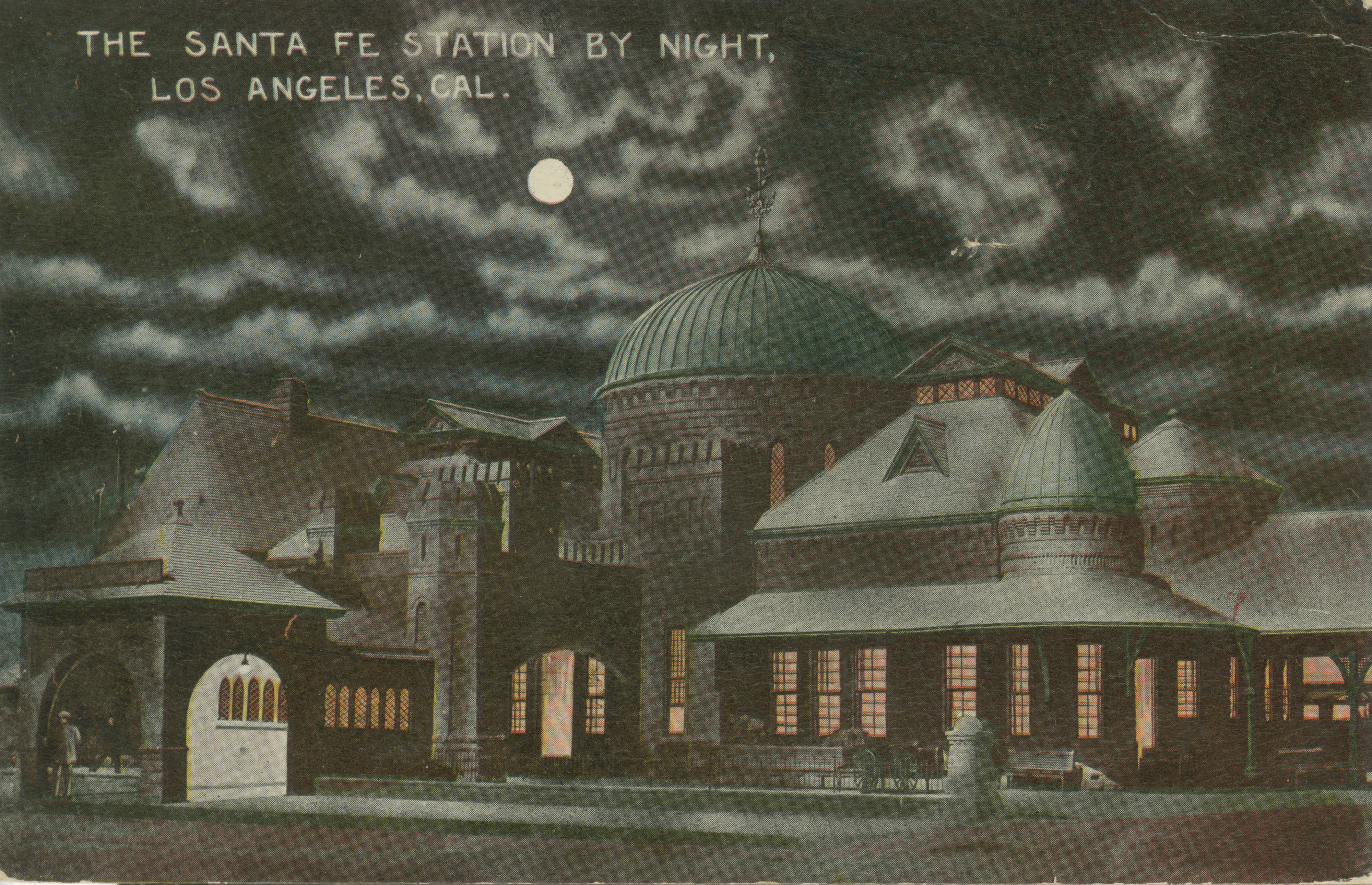 A nighttime view of the La Grande Station from the southeast. The Atchison, Topeka and Santa Fe Railway (often abbreviated to "Santa Fe") opened La Grande Station on July 29, 1893. It was located at 2nd Street and Santa Fe Ave, just south of the First Street viaduct built in 1929, and on the west bank of the LA River. The Moorish-style depot cost $50,000 and for 30 years boasted a first-class restaurant called "The Harvey House." La Grande Station was the Santa Fe Railway's main passenger terminal in Los Angeles, California, until the Long Beach earthquake of 1933. After the earthquake, the station's dome was removed, but the station continued to serve as Santa Fe Railway's LA passenger terminal until the opening of the new LA Union Station on May 7, 1939. When Union Station opened in 1939, Santa Fe moved all of its passenger services there and closed the La Grande station. Approximate date from postmark.